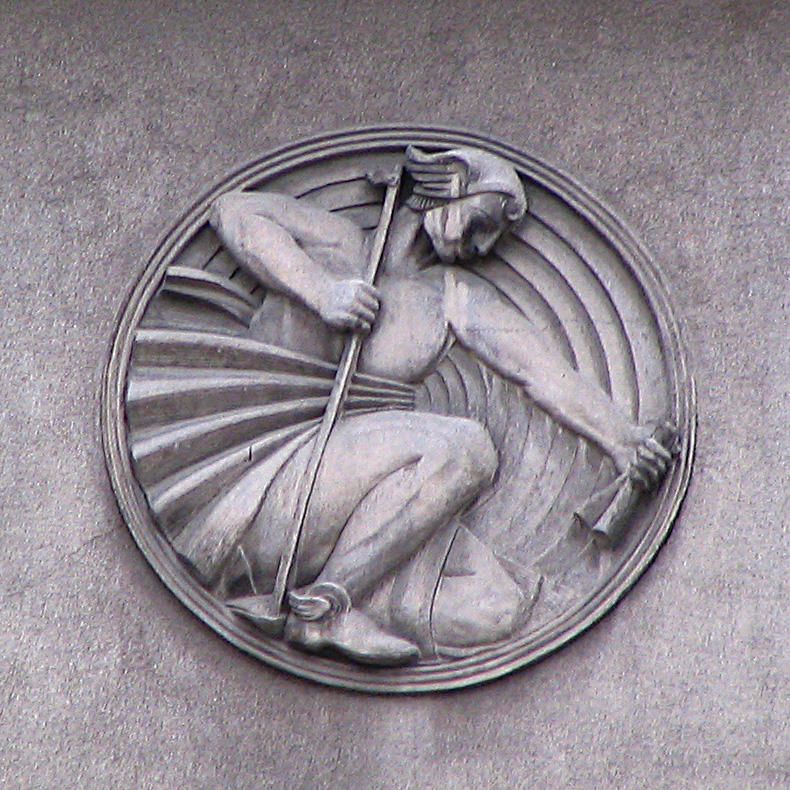 Bas-Relief in King Aleksandar bulevard, Belgrade